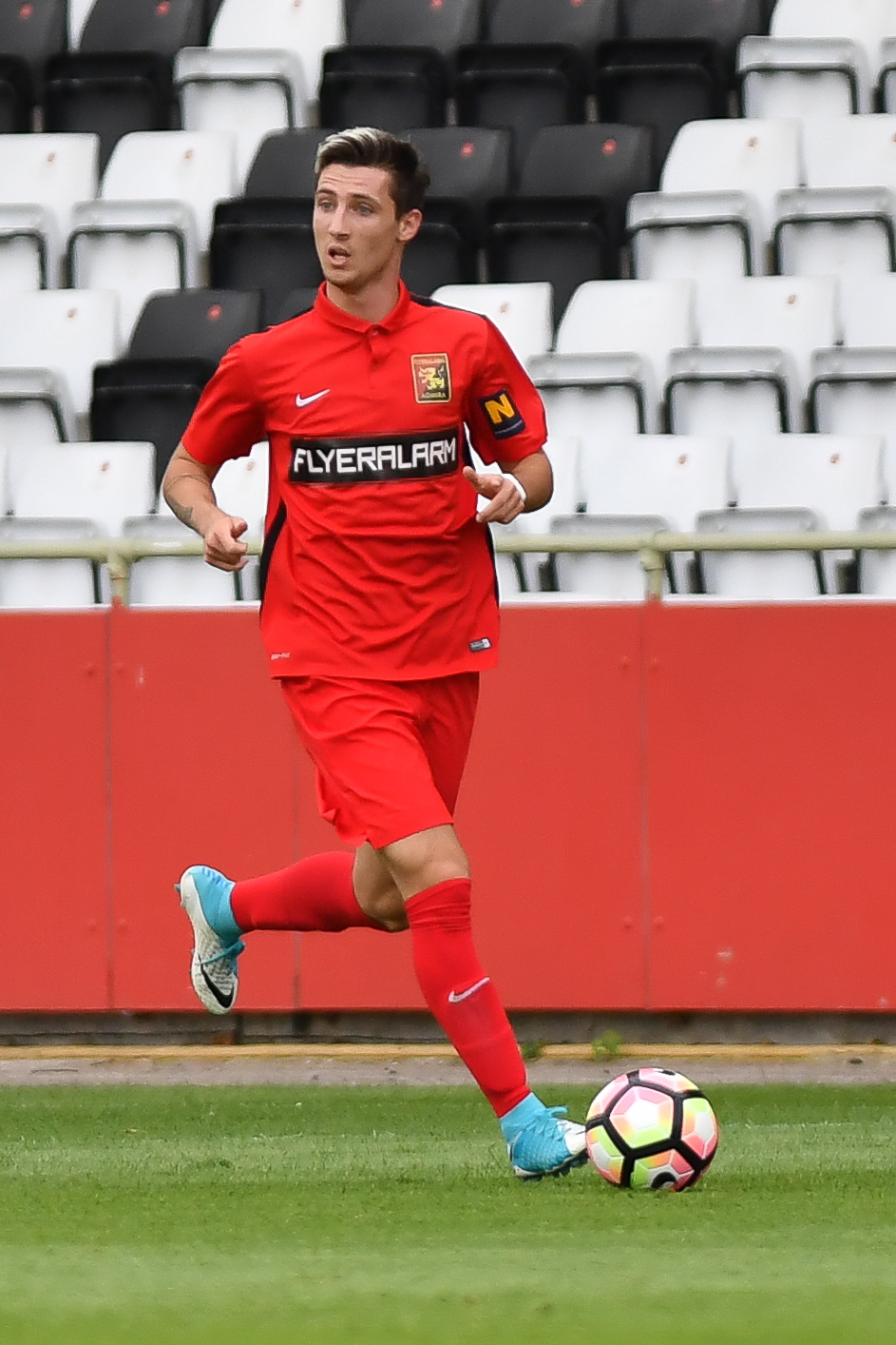 28/6/2017, Maria Enzersdorf, Austria, sports, soccer, Tipico Fussball Bundesliga - preparation match FC Flyeralarm Admira vs Gyirmot FC Gyoer. Image shows Marin Jakolis (ADM).